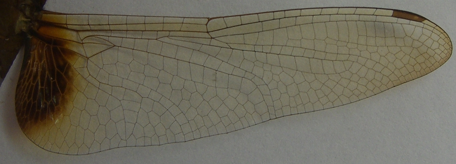 Description: Detail of the hindwing of Tauriphila australis, (male)